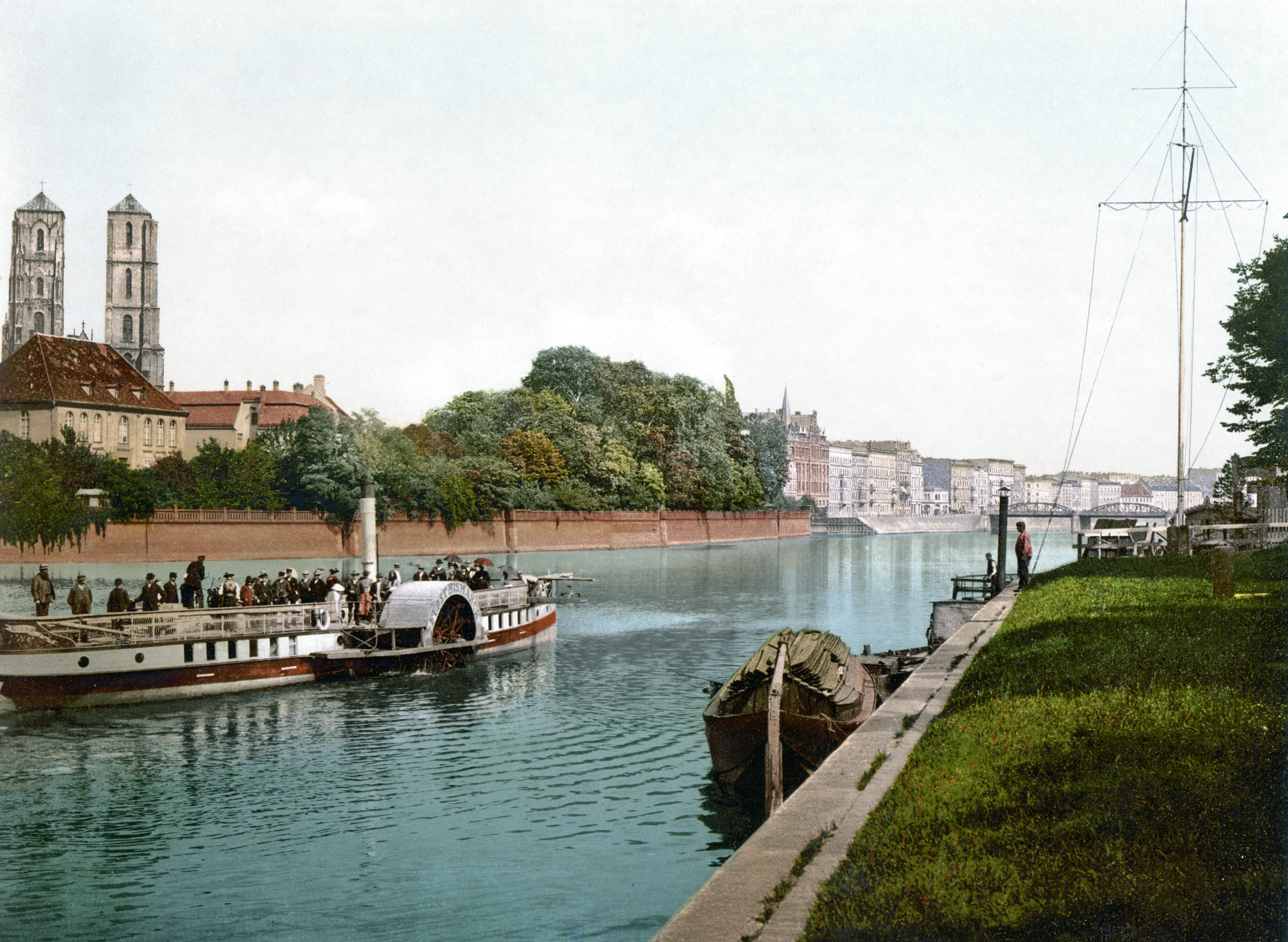 Oder River and Cathedral Island in Breslau, Germany (now Wrocław, Poland) ca. 1890-1900.]